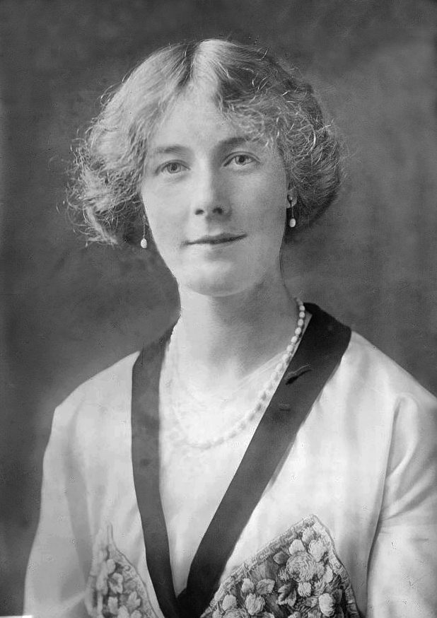 Bain News Service,, publisher. Muriel Dodd in 1913 [between ca. 1910 and ca. 1915] 1 negative : glass ; 5 x 7 in. or smaller. Notes: Title from unverified data provided by the Bain News Service on the negatives or caption cards. Forms part of: George Grantham Bain Collection (Library of Congress). Format: Glass negatives. Repository: Library of Congress, Prints and Photographs Division, Washington, D.C. 20540 USA, General information about the Bain Collection is available at Persistent URL: Call Number: LC-B2- 2824-17